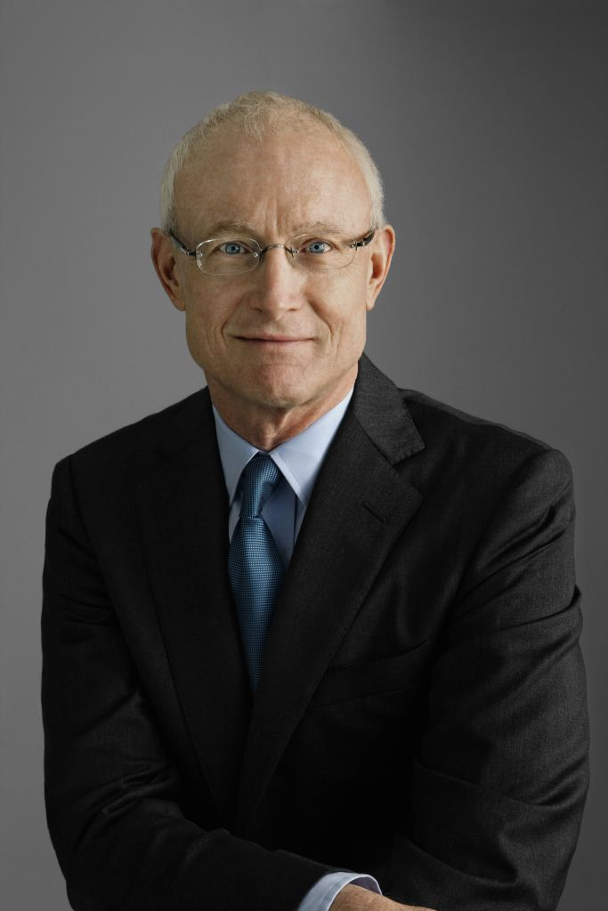 Professor Michael E. Porter